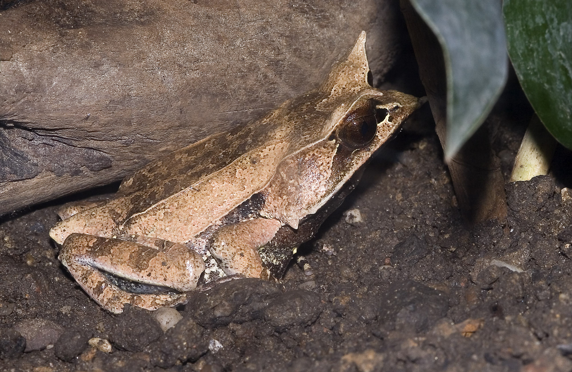 Please report references to .